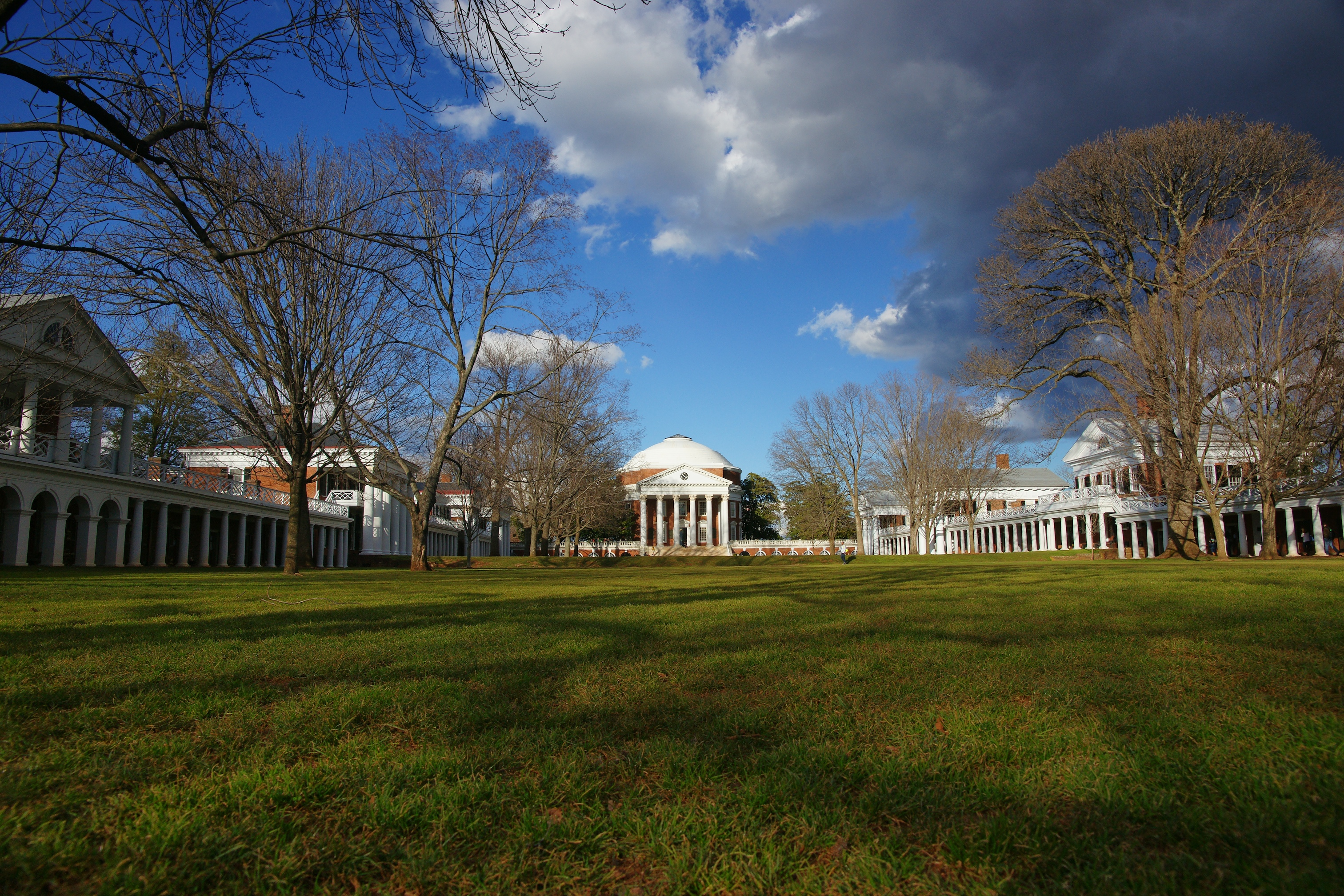 The Lawn at the University of Virginia, USA, looking north / towards the Rotunda (and the six and a half Pavilions closest to it)